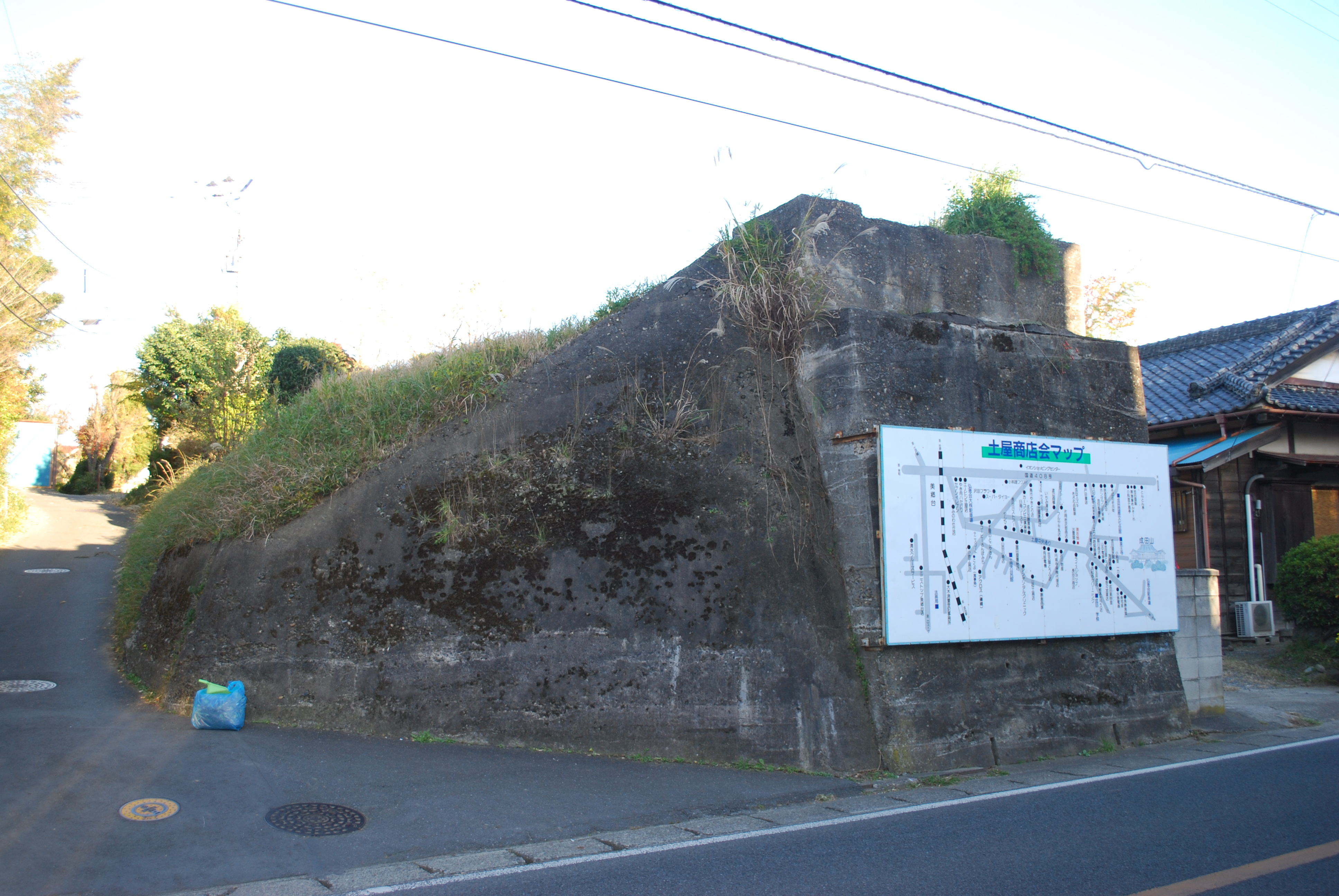 Old-narita-railway,tako-line,abutment pier,tsuchiya,narita-city,japan